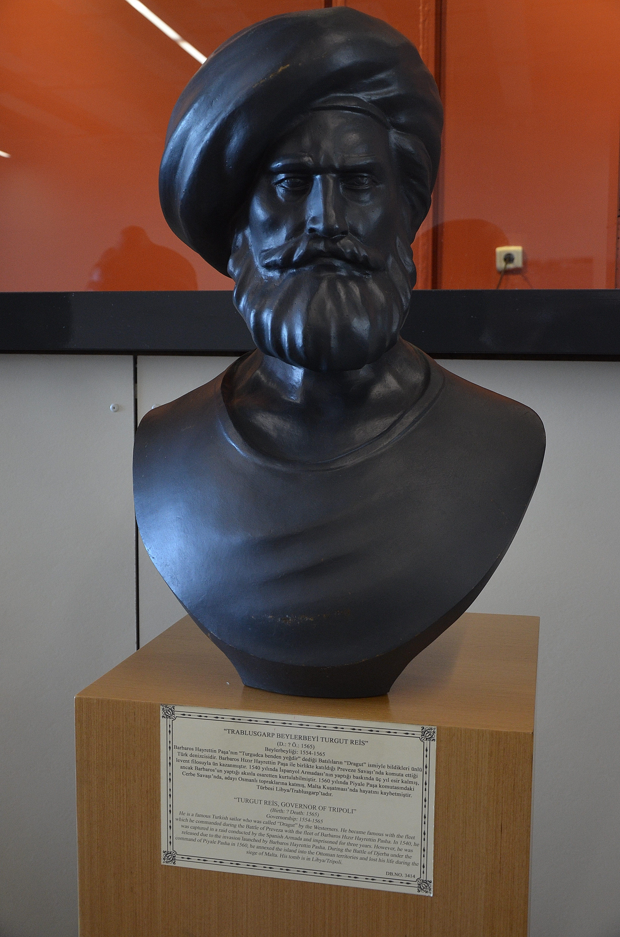 Bust of Turgut Reis in the Istanbul Naval Museum